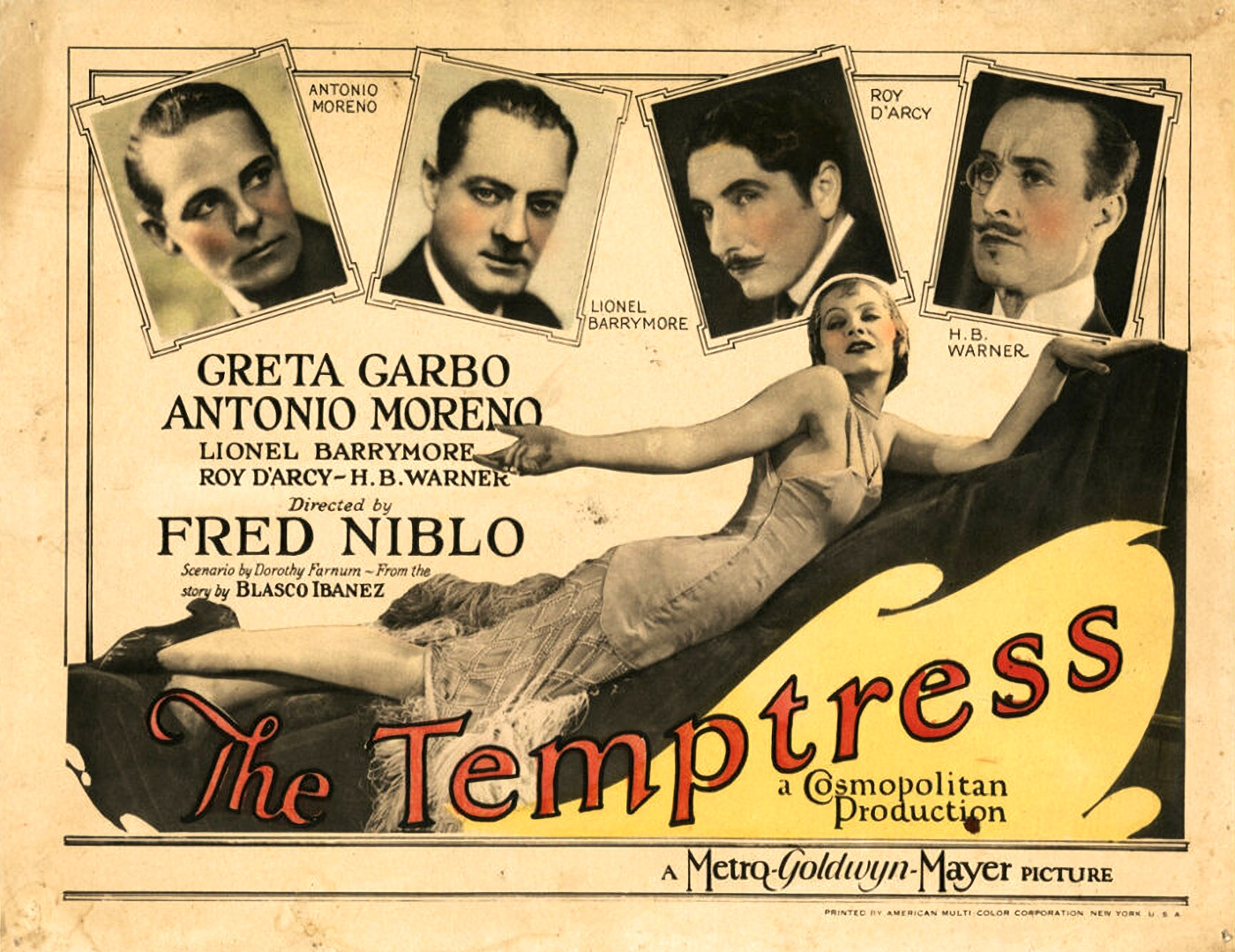 Poster for the 1926 American film The Temptress. (Note: H.B. Warner is shown on the poster but is not listed in the credited or uncredited cast of The Tempest.)